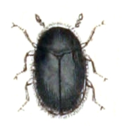 Trinodes hirtus, from Calwer's Käferbuch, Table 16, Picture 13. Taxonomy was updated to 2008, using mostly the sites Fauna Europaea and BioLib. Please contact Sarefo if the determination is wrong!